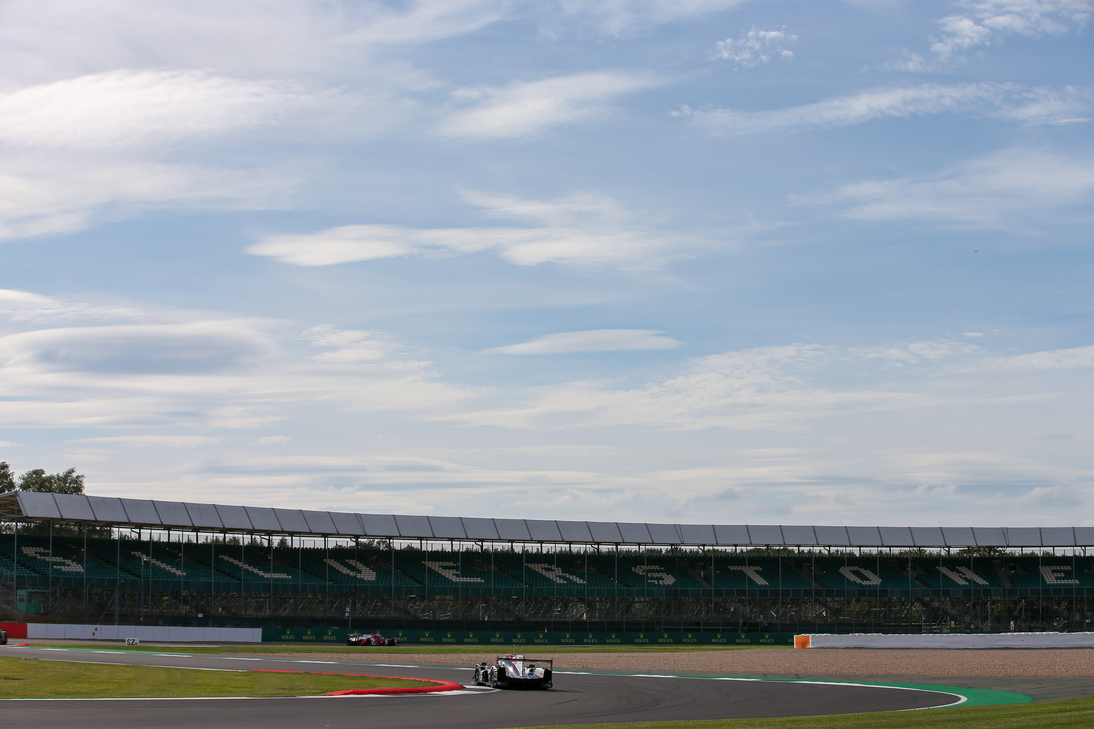 European Le Mans Series - 2019 4 Hours of Silverstone - Stand